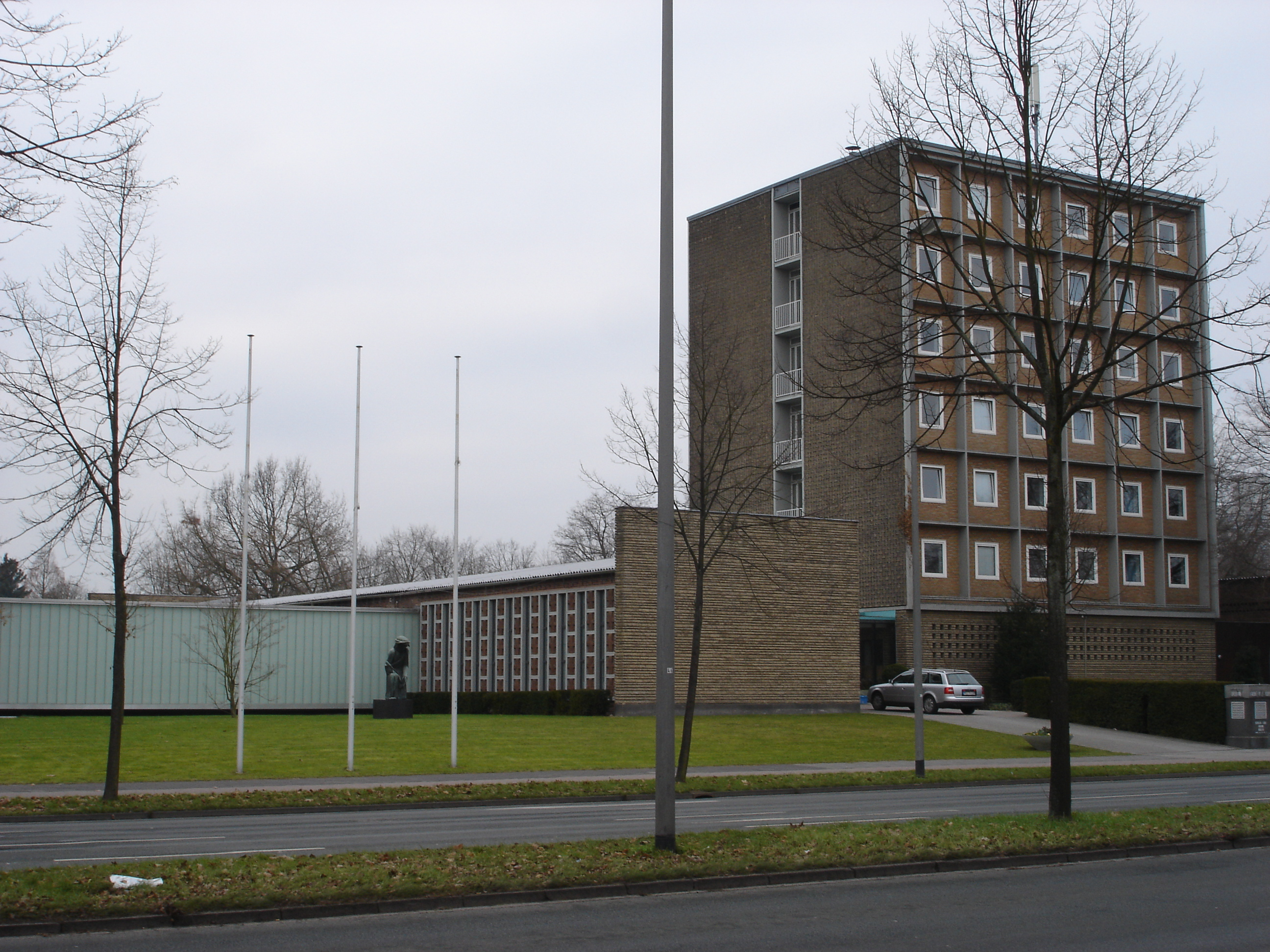 View on the front of the "Franz Hitze Haus" in Münster, Westphalia, Germany